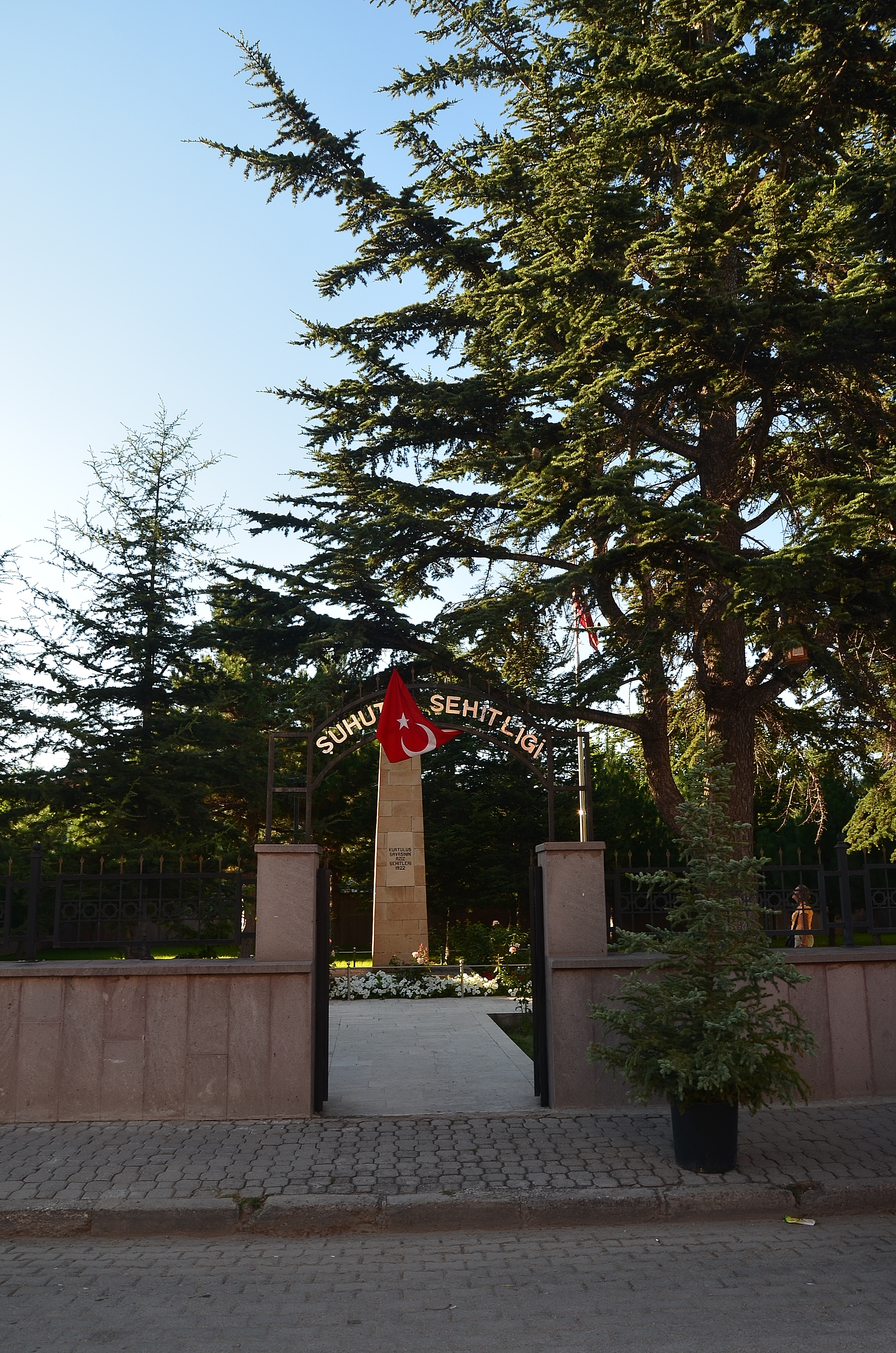 Şuhut Memorial Cemetery in Şuhut, Afyonkarahisar, Turkey